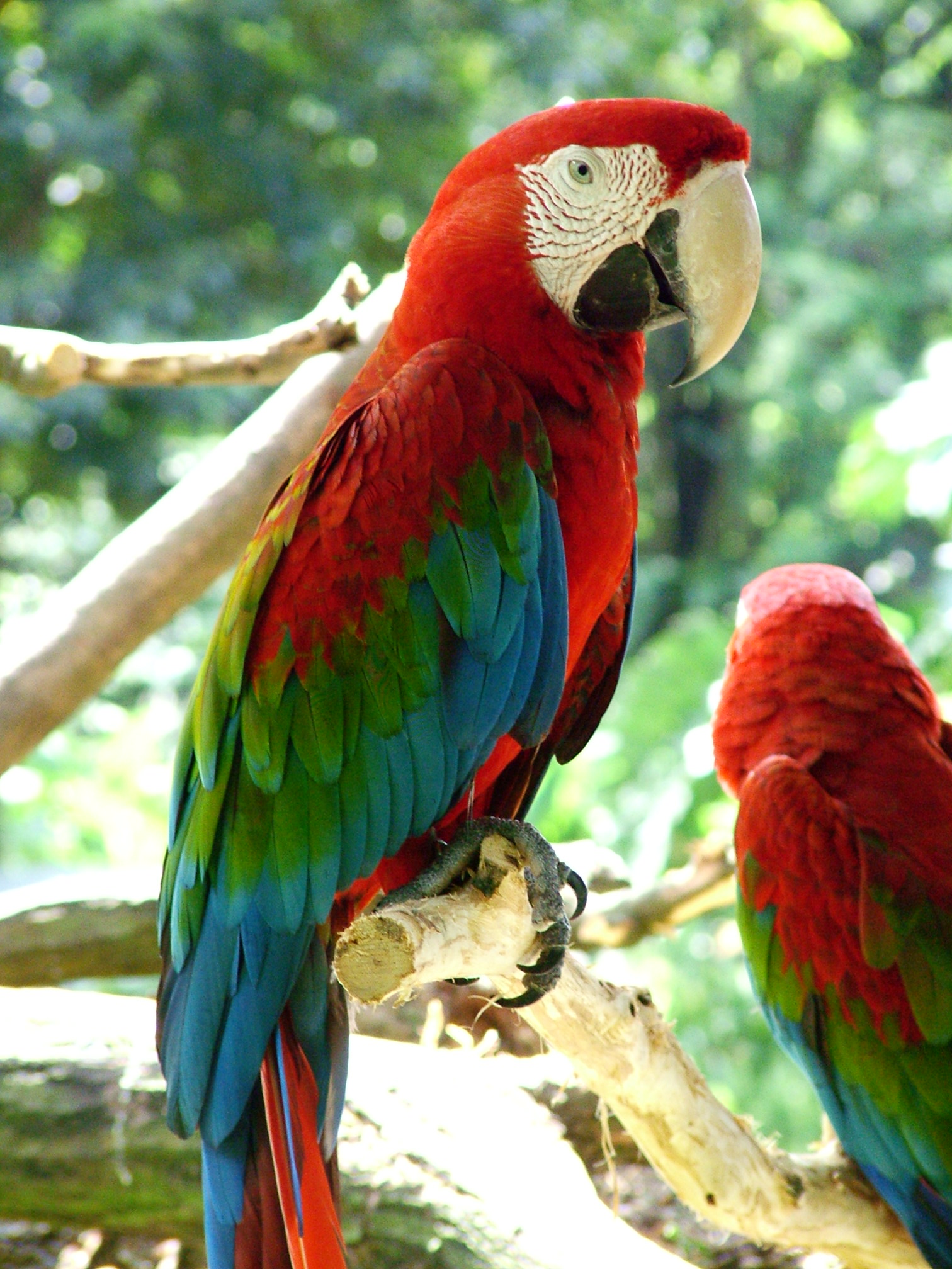 Green-winged Macaw or Red-and-green Macaw (Ara chloropterus) at a bird park in Singapore.